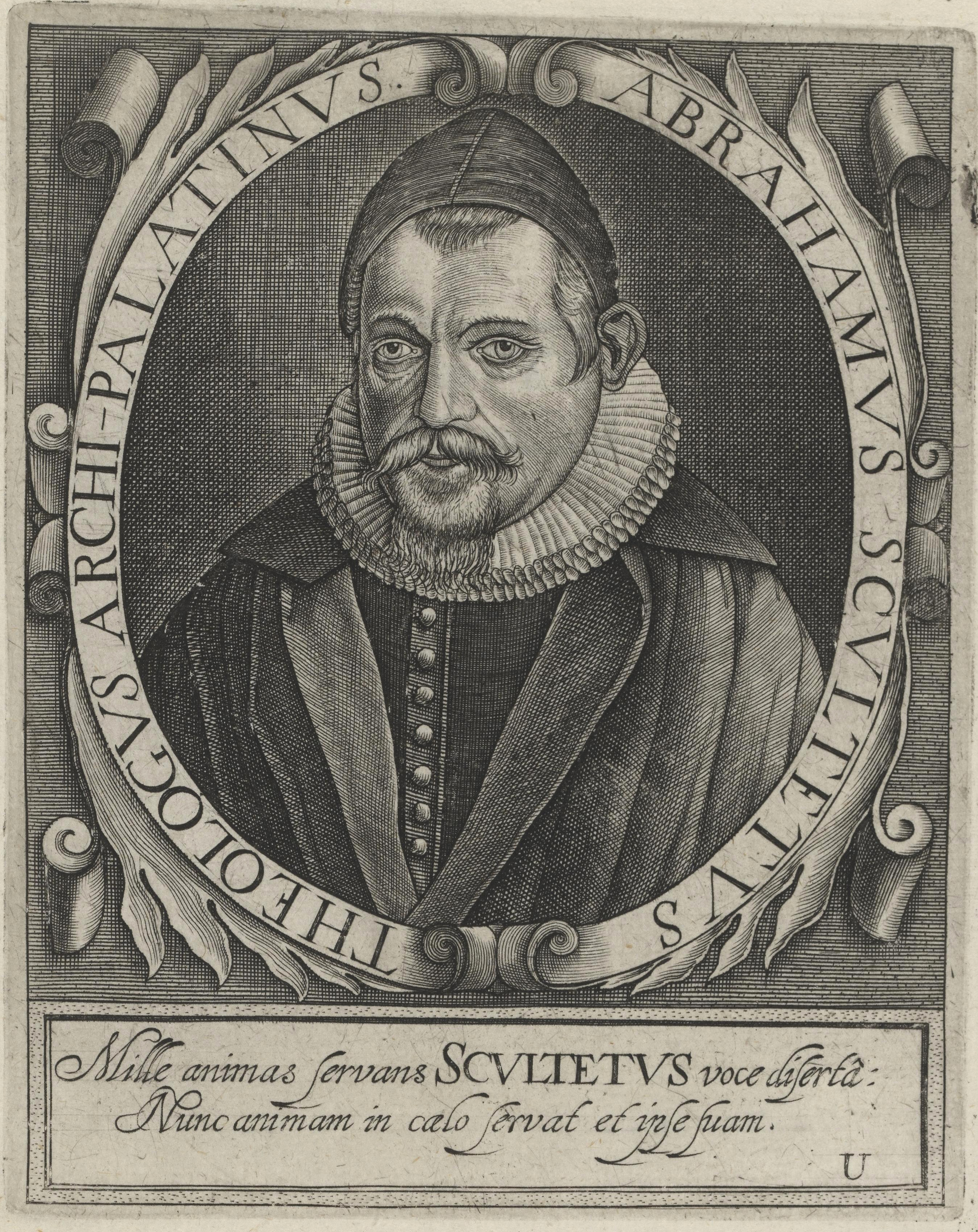 Depicted person: Abraham Scultetus